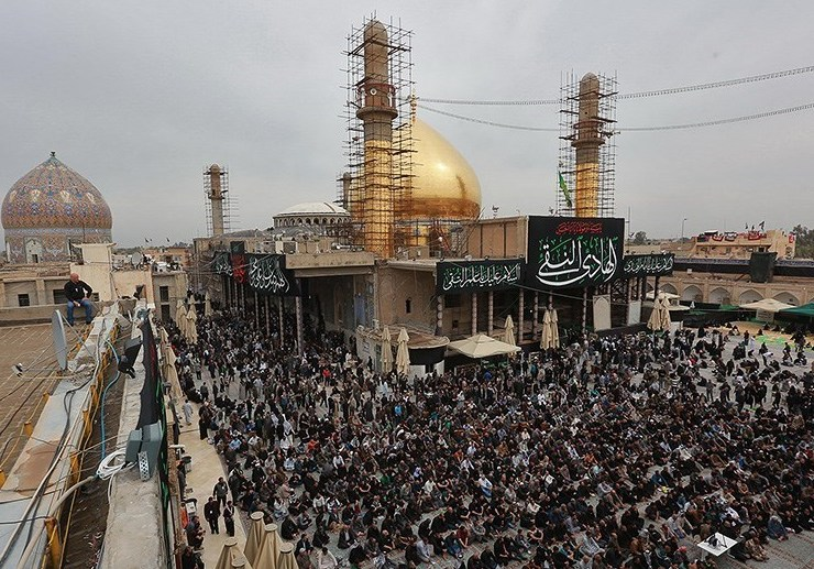 Al-Asakari Mosque